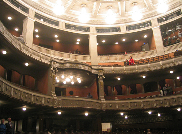 Stuttgart, Wurttemberg State Opera, auditorium